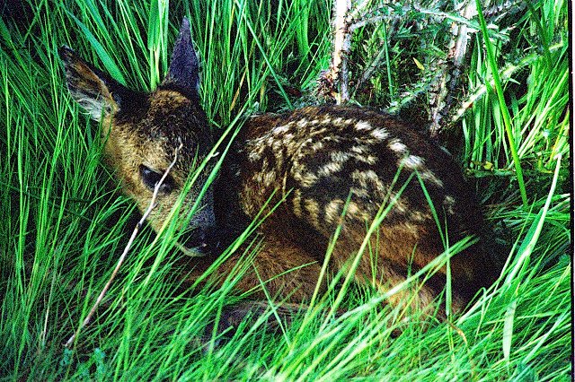 Capreolus capreolus young, from Commanster, Belgian High Ardennes (50°15'20N,5°59'58E)